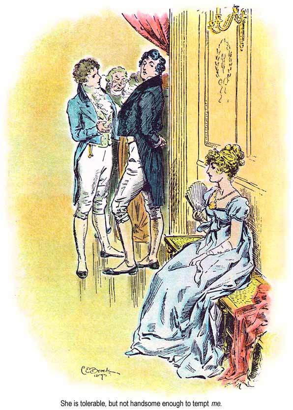 C. E. Brock illustration for the 1895 edition of Jane Austen's novel Pride and Prejudice (Chapter 3) : "She is not handsome enough to tempt me".